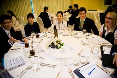 A Sustainability Roundtable which was part of the Asian Business Case Competition @ Nanyang organized by Nanyang Business School, Nanyang Technological University, Singapore.